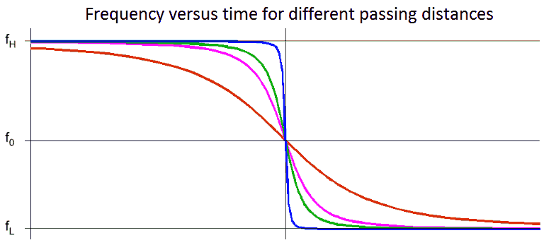 Frequency versus time for different passing distances. See Dopplereffekt for details.